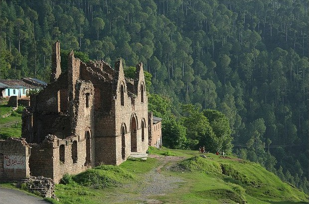 It is one of the oldest buliding of Murree/Punjab/Pakistan